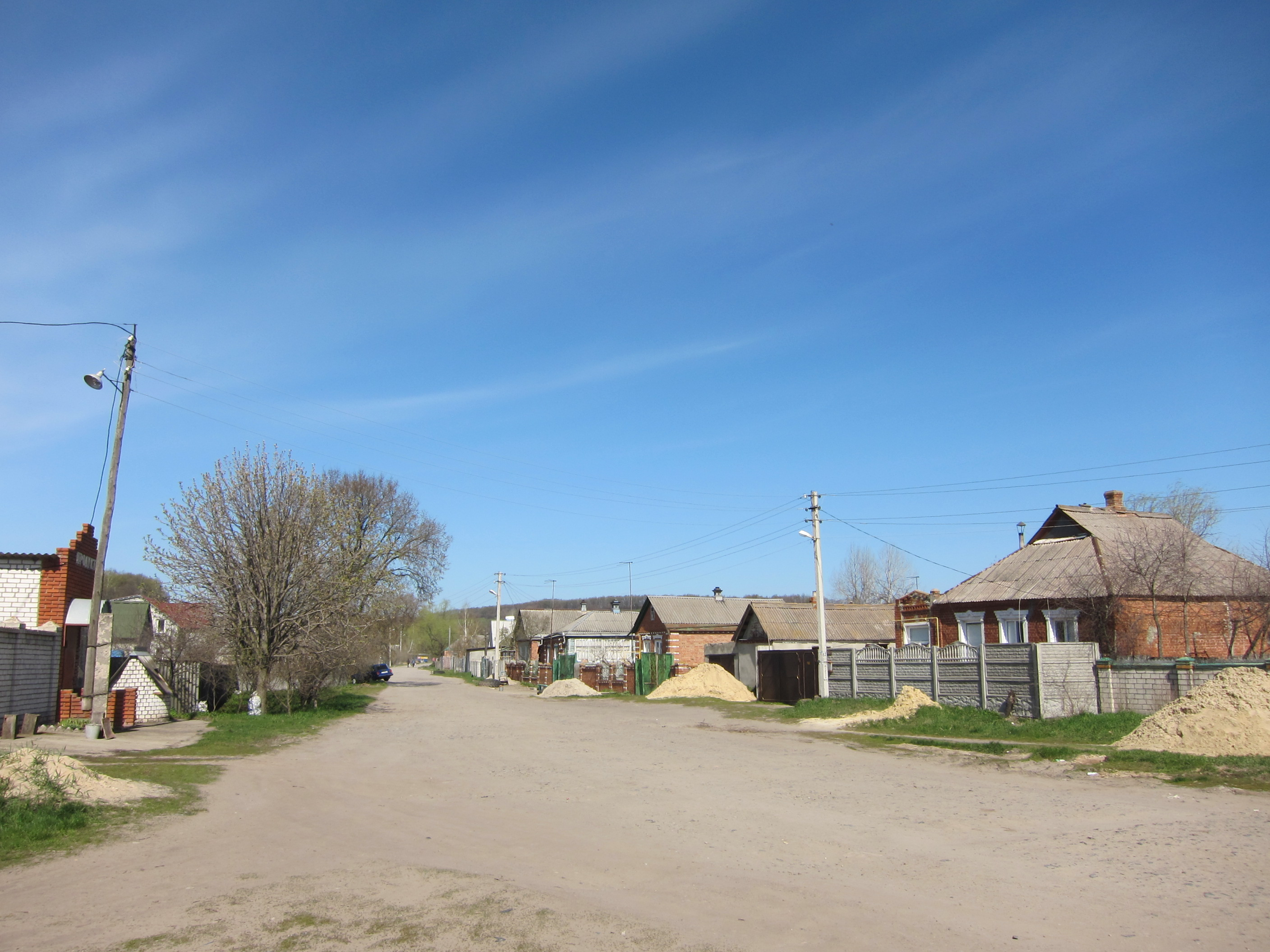 Main Street, Cherkaski Tyshky